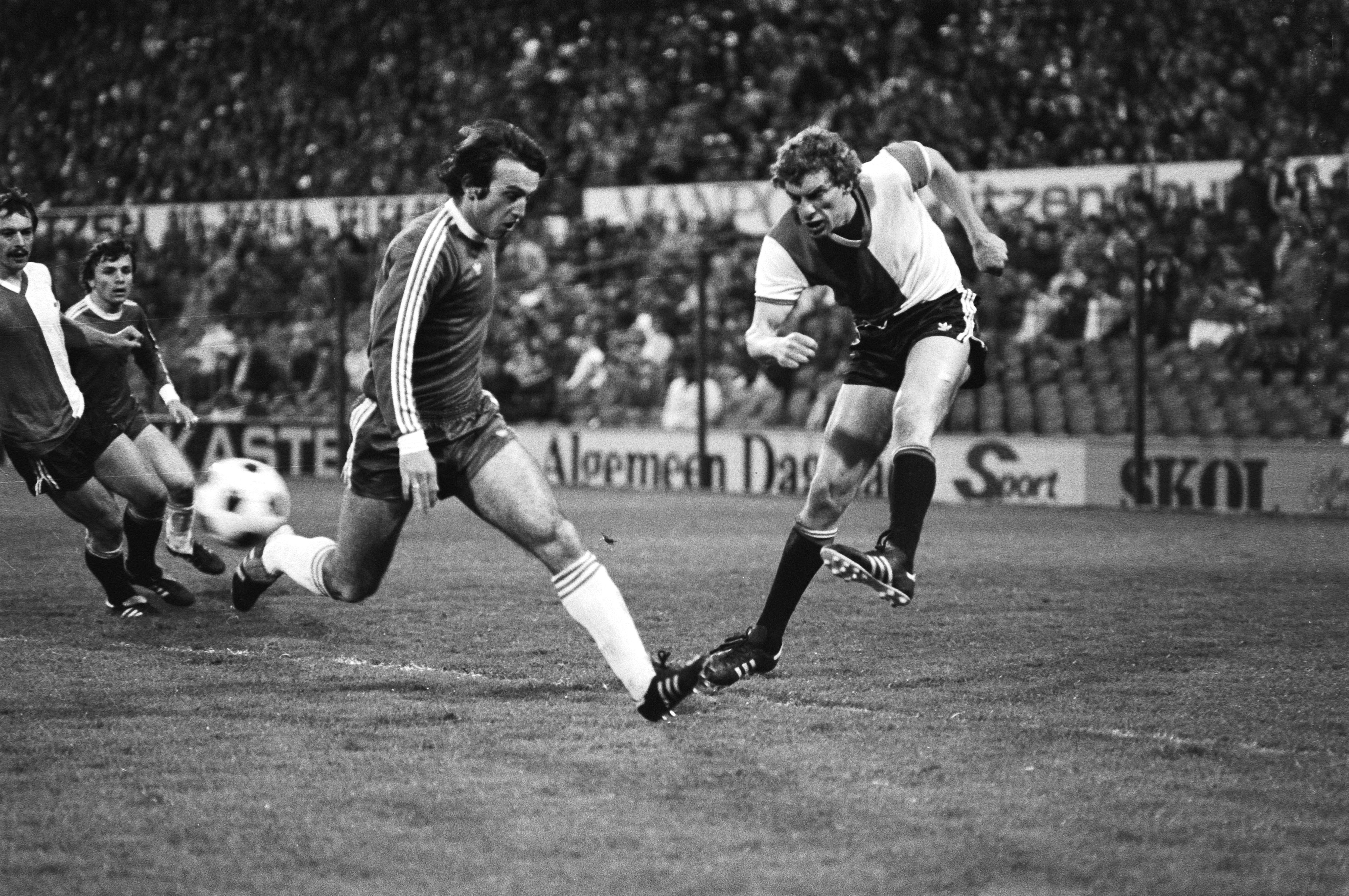 The 2nd leg in the Semi-finals of 1980–81 European Cup Winners' Cup against Feyenoord Rotterdam ended with 2:0 to Tbilisi. In the same season Dinamo Tbilisi win the 1981 European Cup Final.